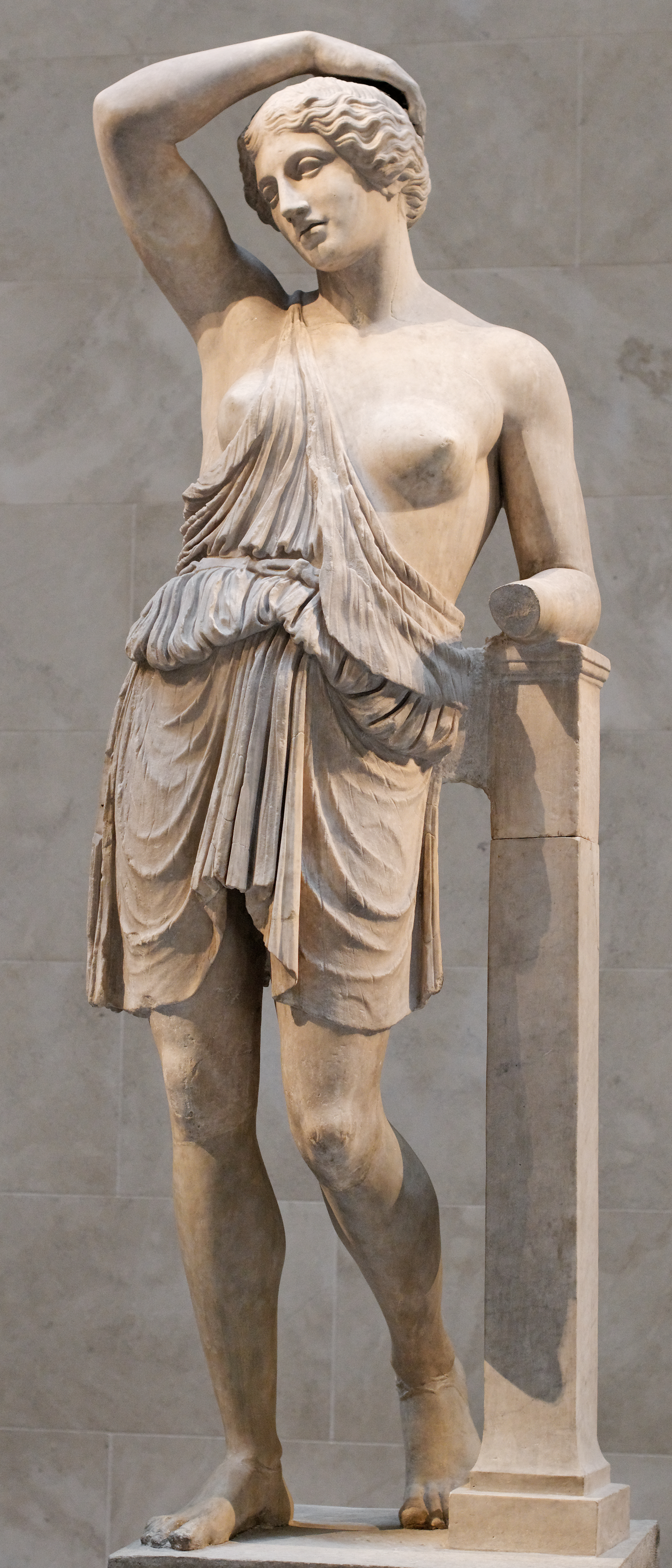 Wounded Amazon. Roman artwork of the Imperial period after a Greek bronze original of ca. 450–425 BC; the lower legs and feet are casts from other copies in Berlin and Copenhagen; the right arm, lower part of the support and plinth are 18th century restorations.